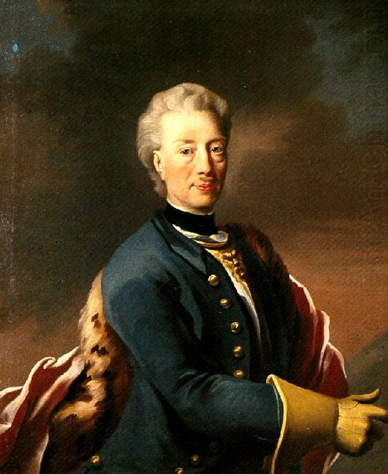 Portrait of Sten Coyet